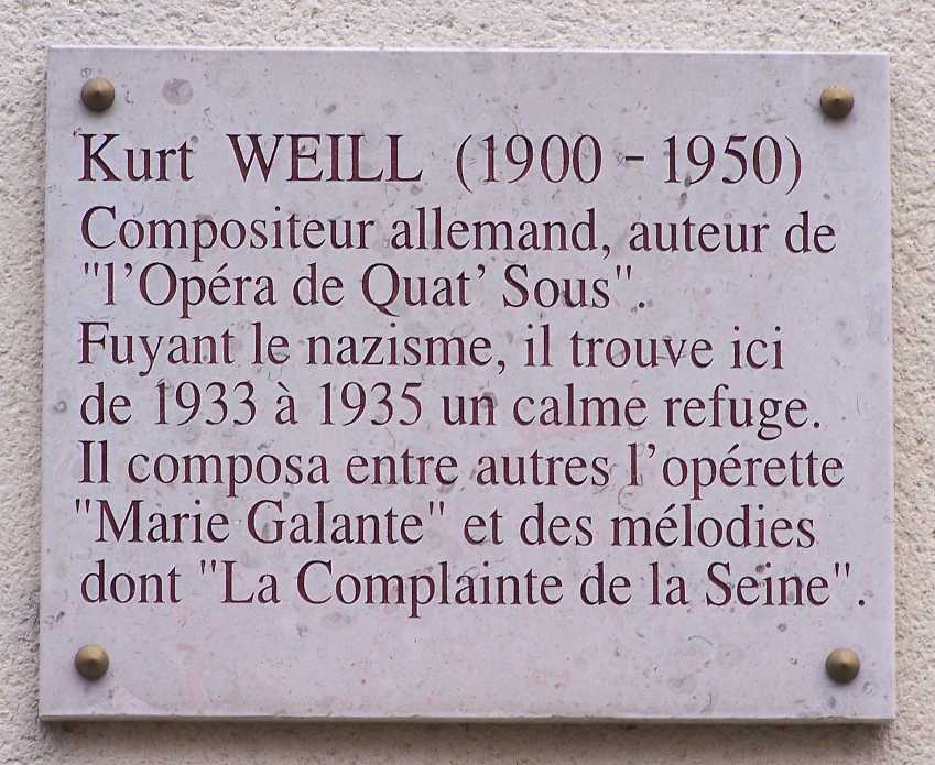 Commemorative sign for Kurt Weill at number 9 bis of the place Emile Dreux in the village of Voisins in Louveciennes (Yvelines, France)